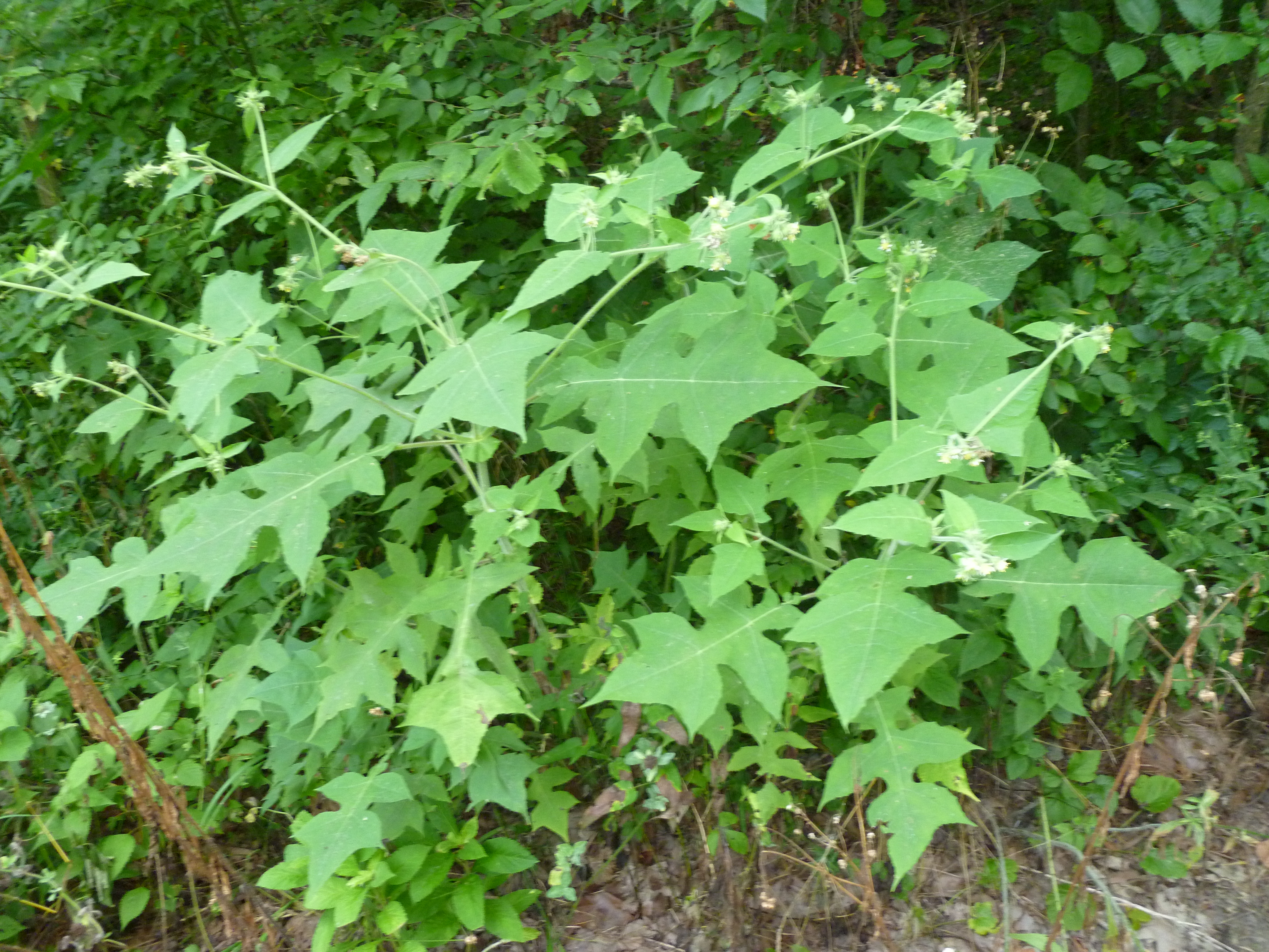 Bears foot leaf identification